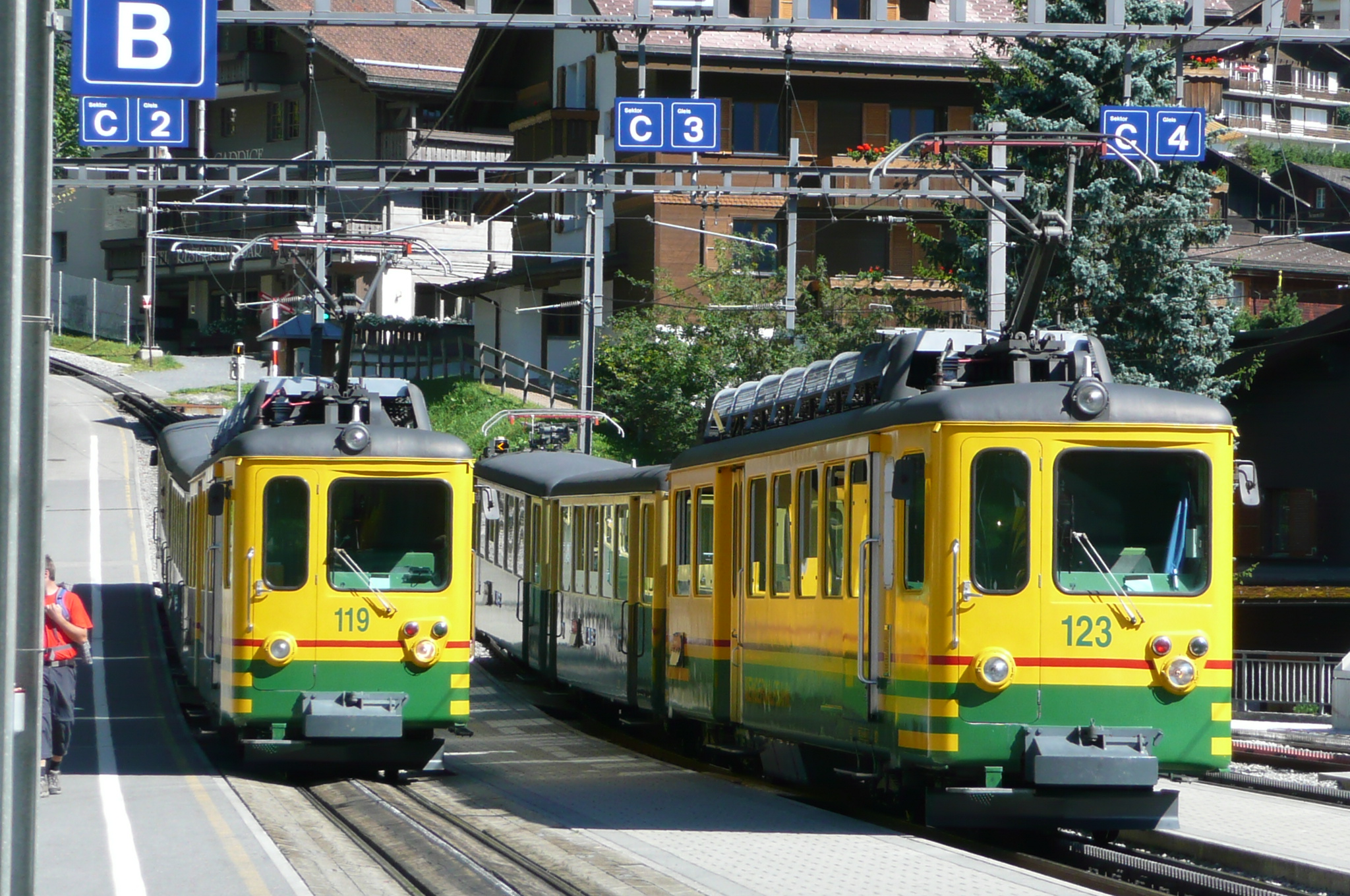 Wengernalp rack railway motor coaches BDhe 4/4 119 and 123 of 1970 in new 1998 colouring. Wengen station 2009-08-05.